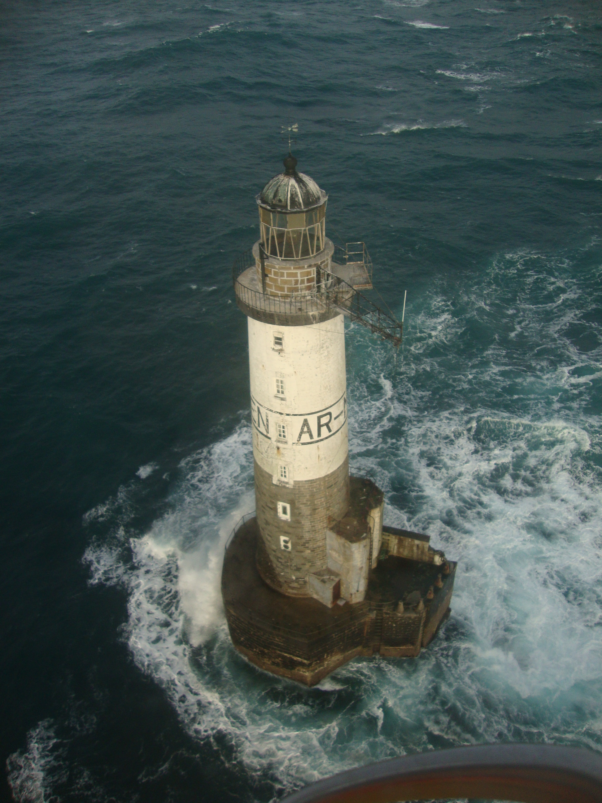 Ar Men, a lighthouse at one end of the Chaussée de l'Île de Sein, at the west end of Brittany.